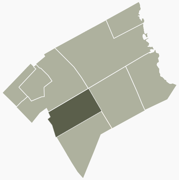 Map of the Vicente López's neighborhood, Florida Oeste.